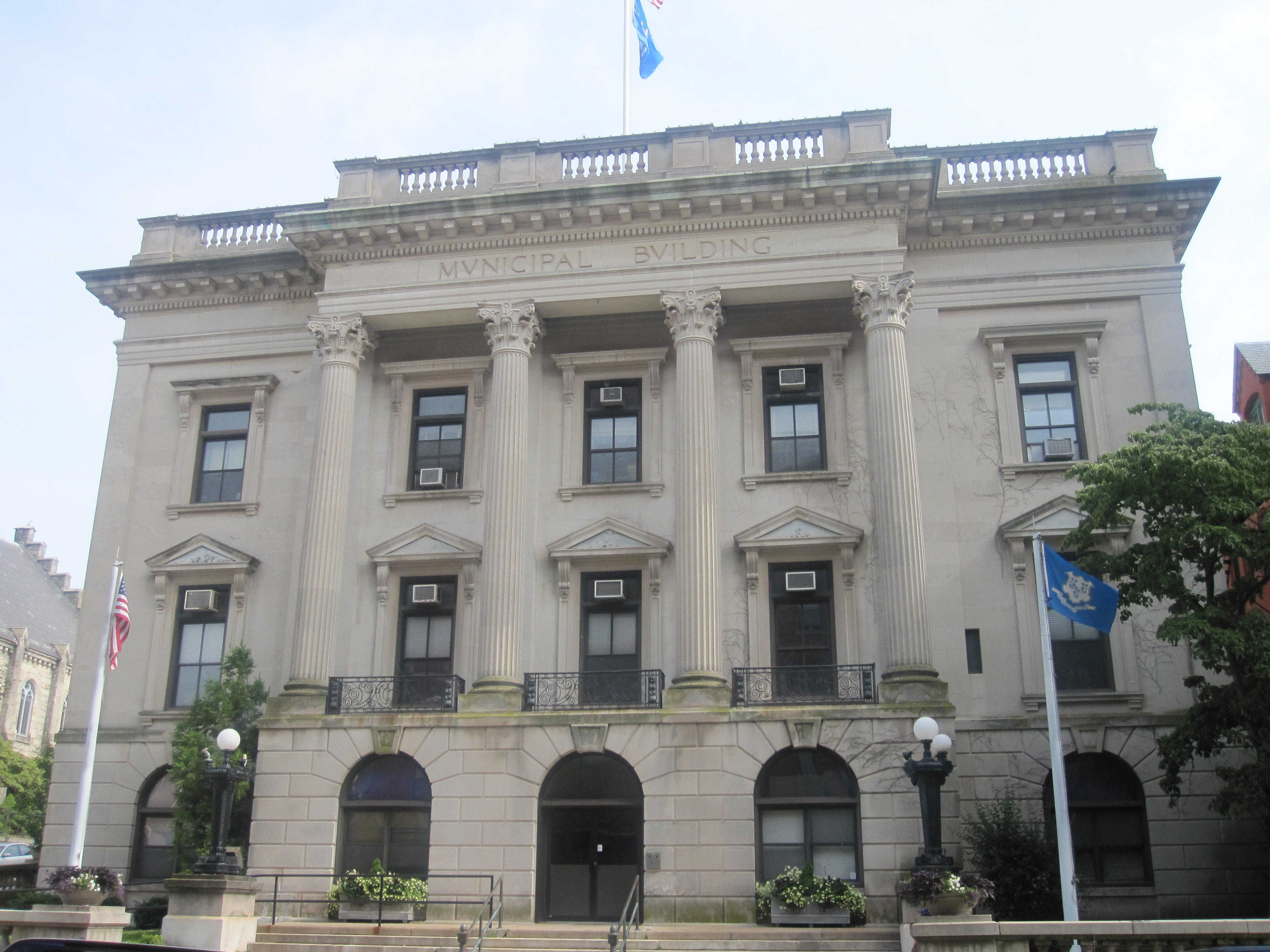 Municipal Building in New London, CT